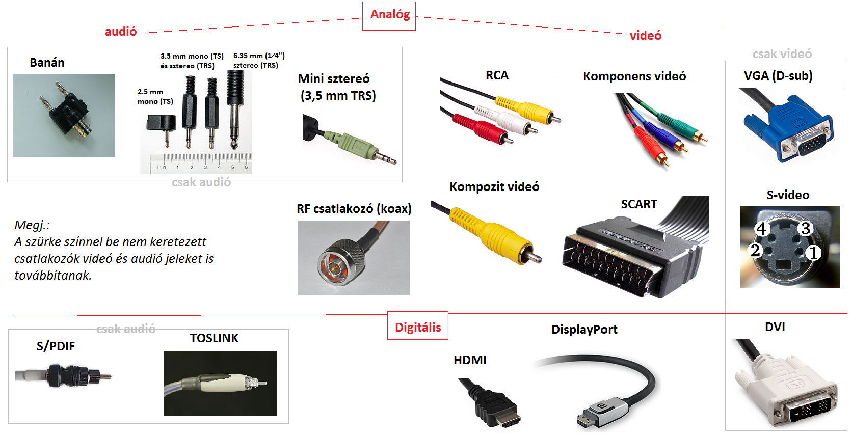 Audio and video connectors: RCA, SCART, VGA etc.